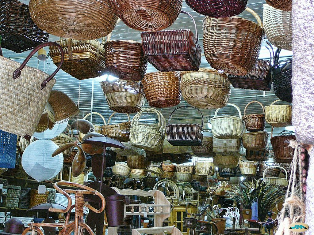 Market in Vigo, Galicia (Spain).